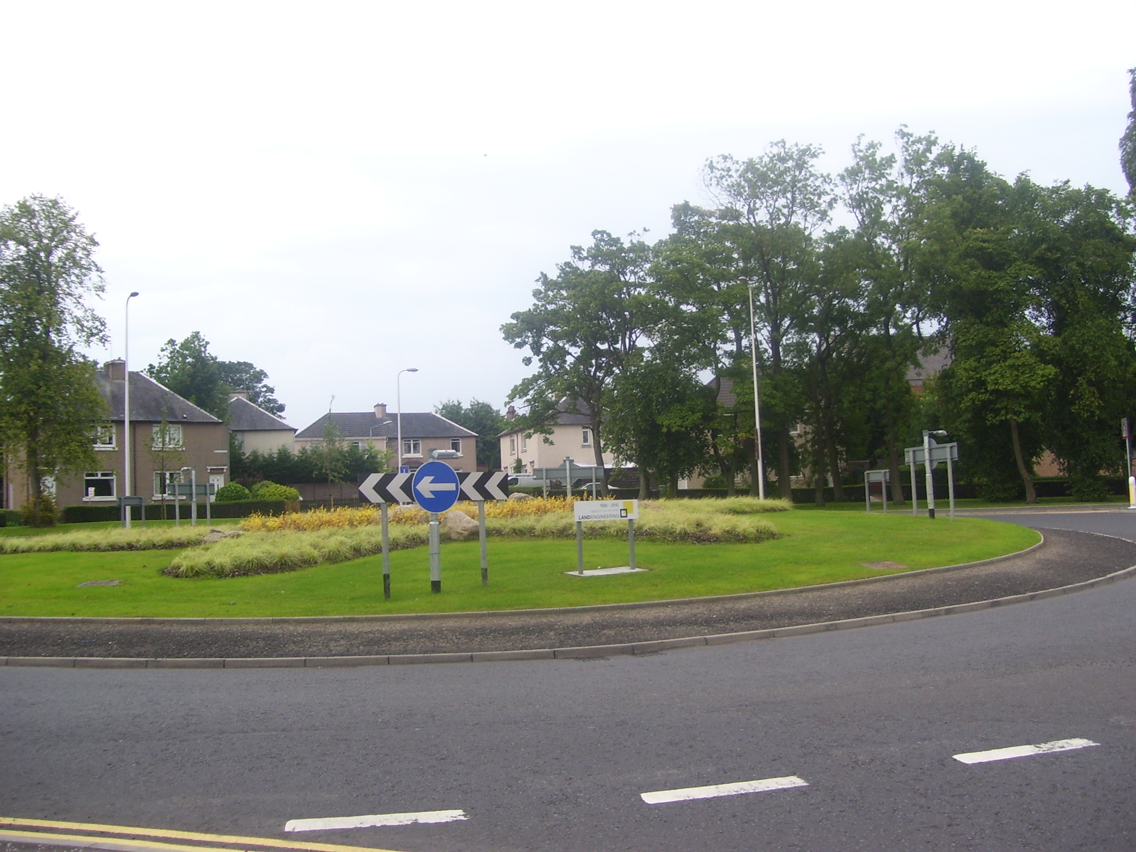 Wishaw Roundabout